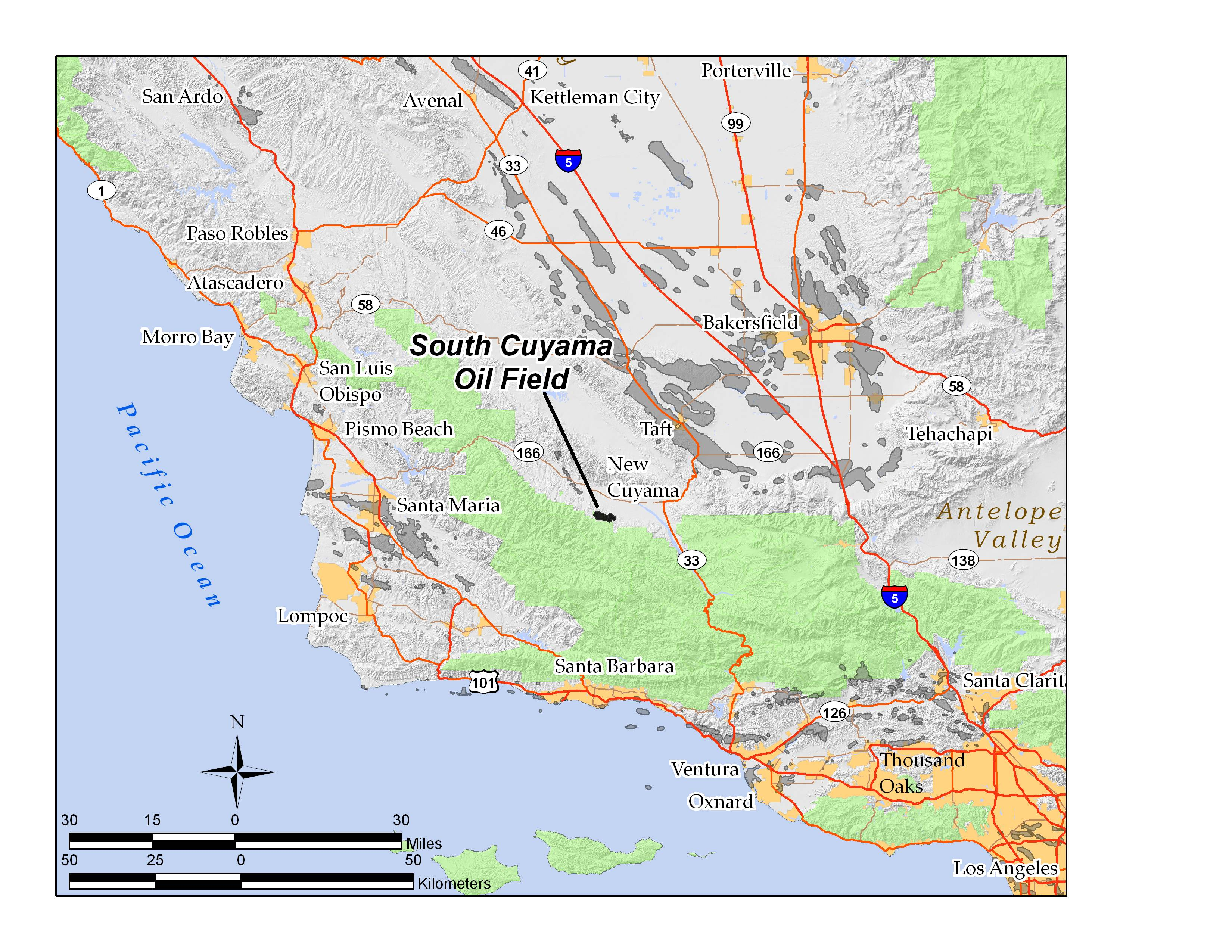 Map of South Cuyama Field, by self, using ArcGIS 9.2; all data shown on this map is in the public domain